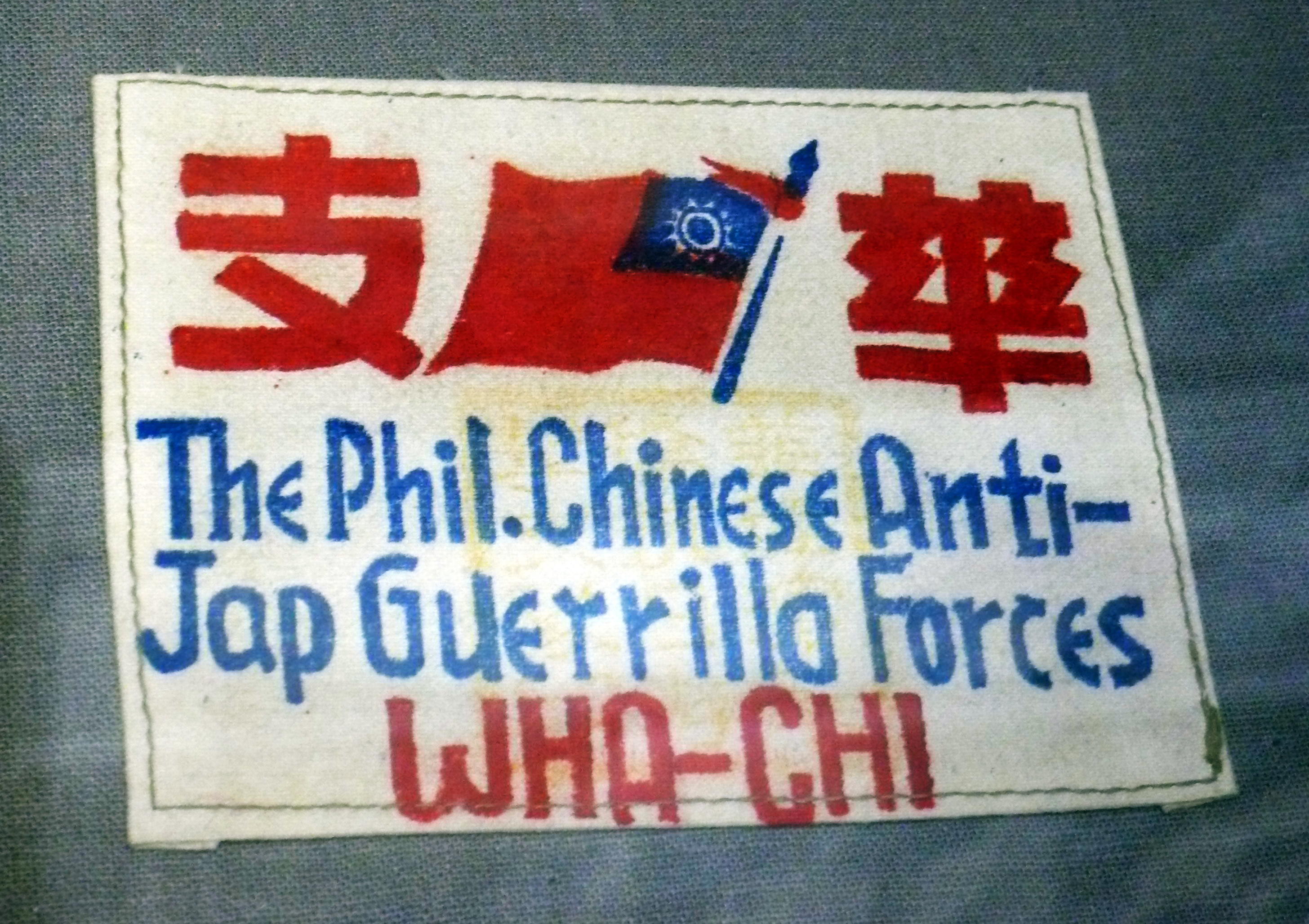 Armlet of Anti-Japanese Guerilla Branch of Overseas Chinese in the Philippines.